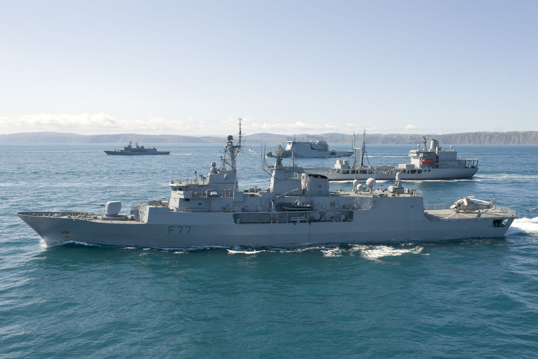 HMNZS Te Kaha (front) forms part of the Navy fleet concentration in the Cook Strait. 20110928_WN_S1015660_0013.jpg